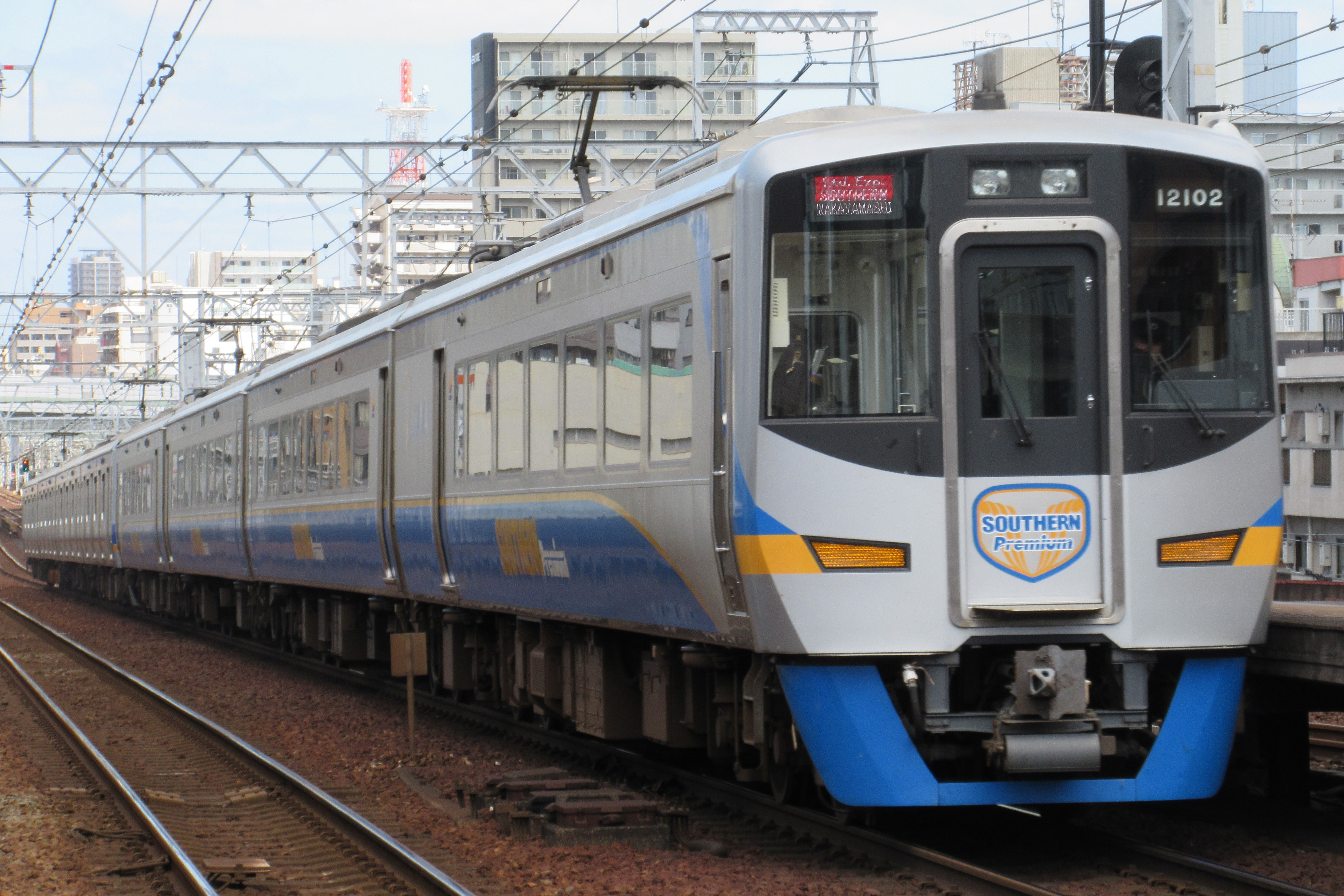 A Nankai Southern service approaching Shin-Imamiya Station with 12000 series EMU set 12002 leading